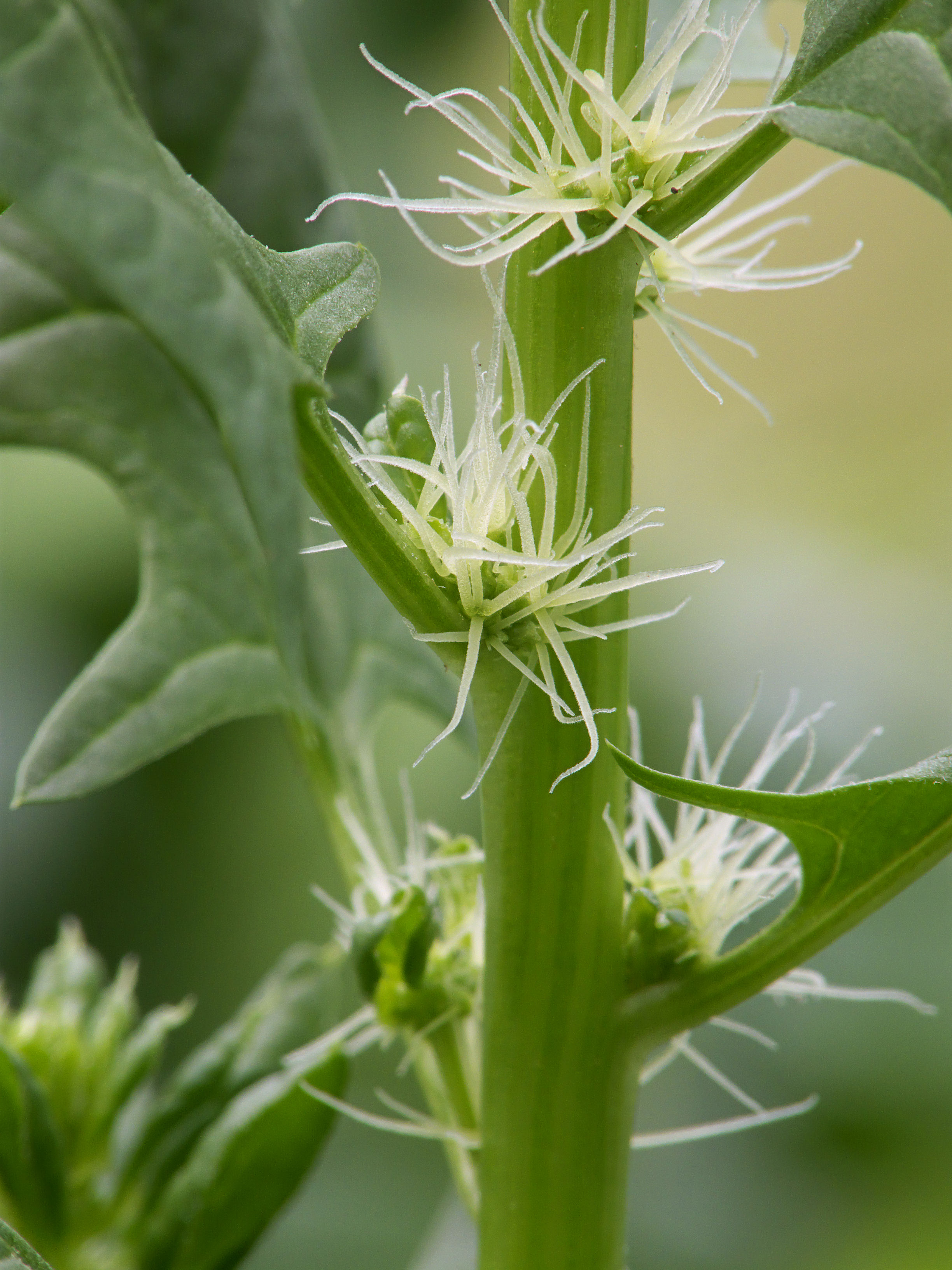 Spinacia oleracea female flowers